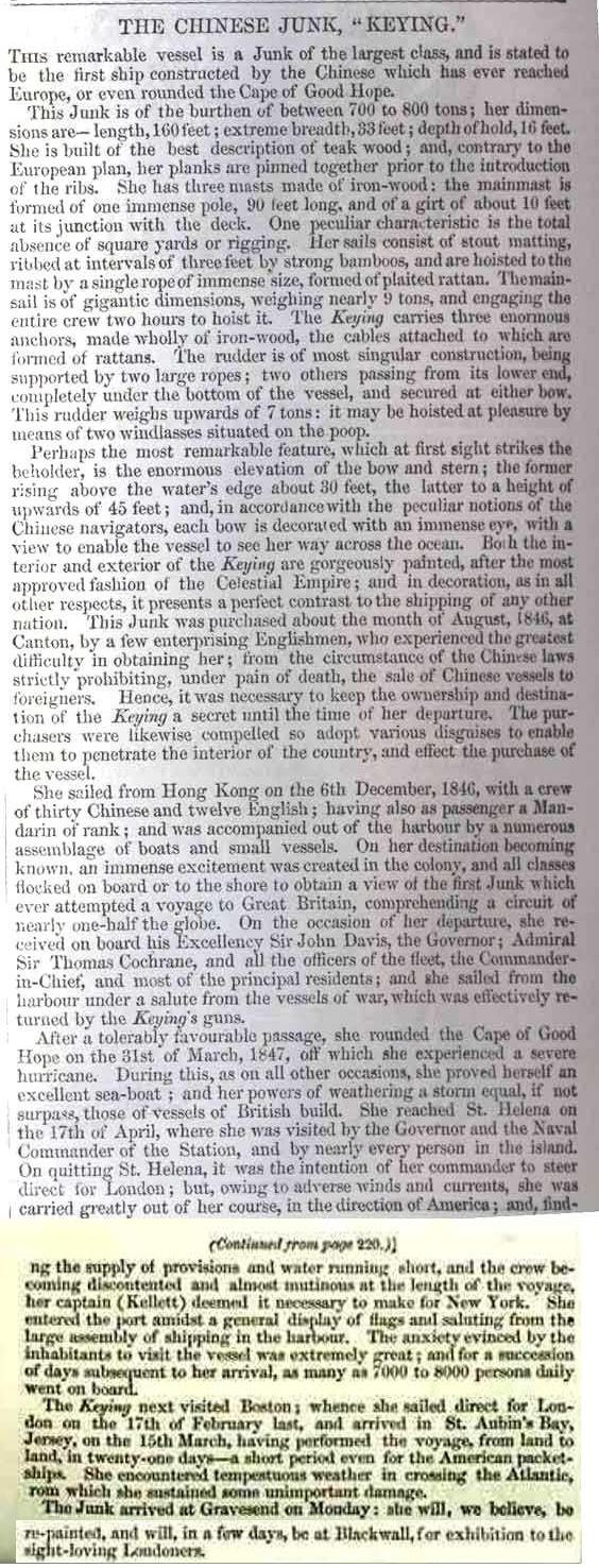 A Junk Keying article published in The Illustrated London News.